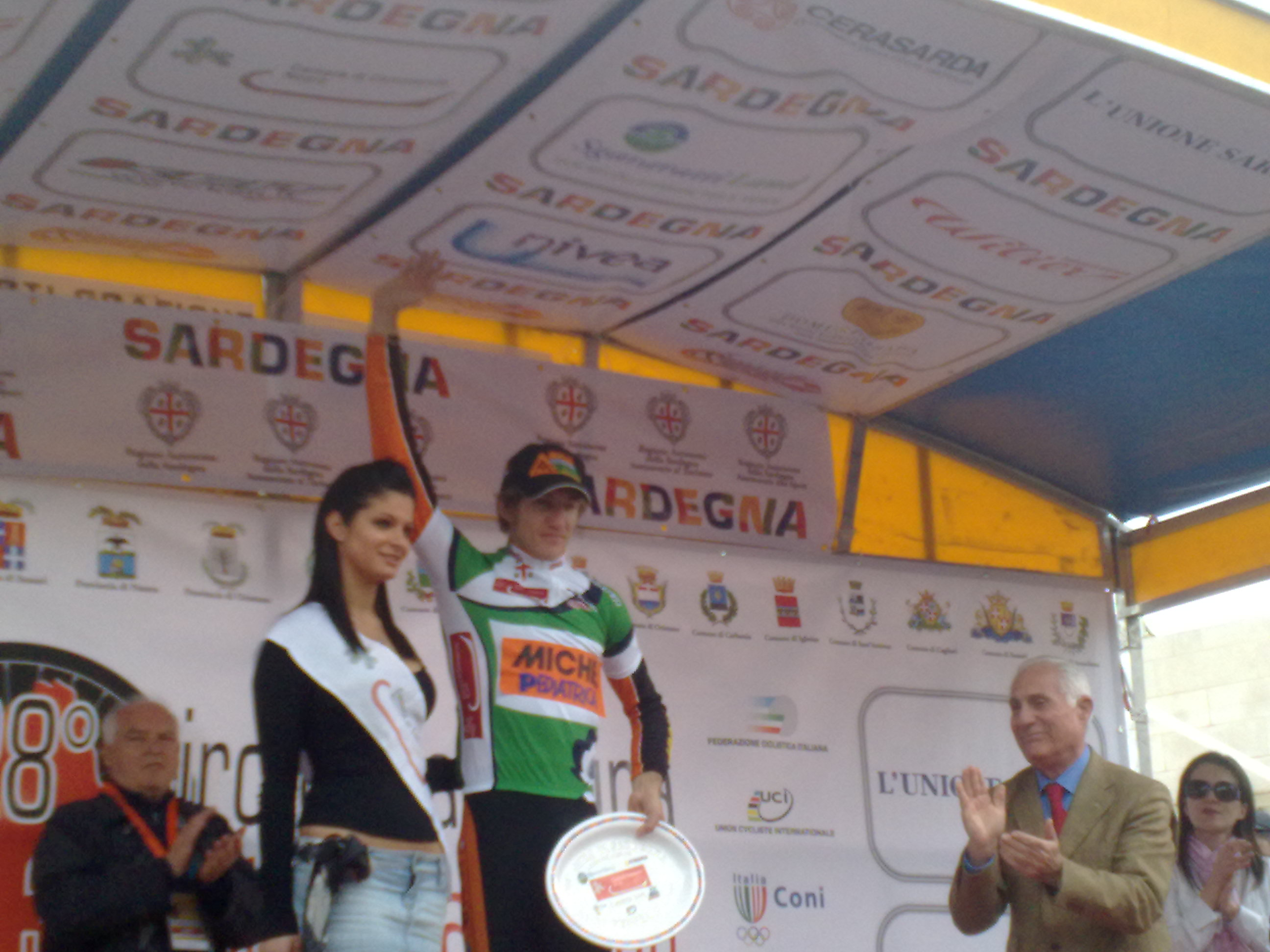 Podium of the green shirt of the Tour of Sardinia (cycling)